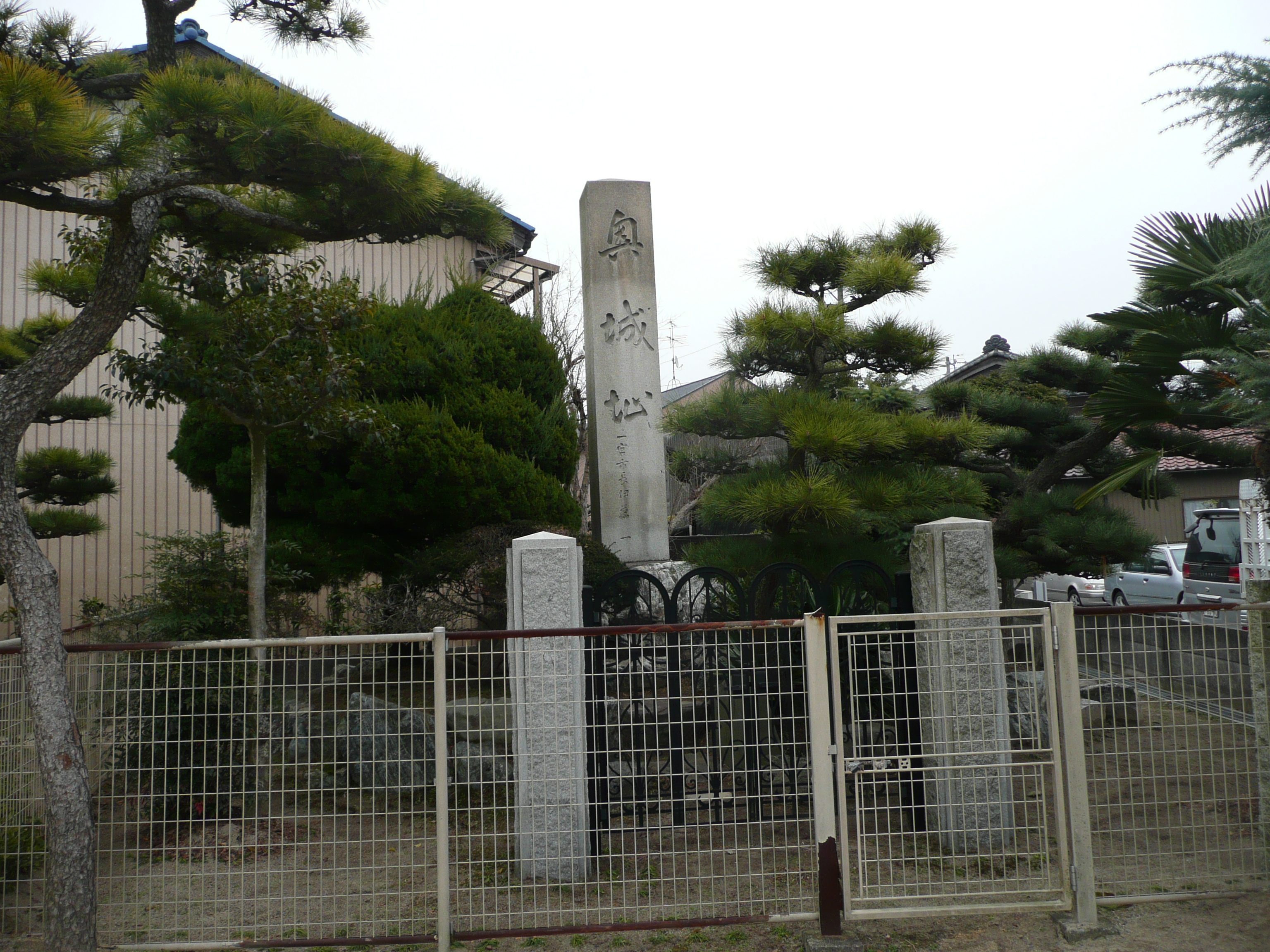 奥城の石碑